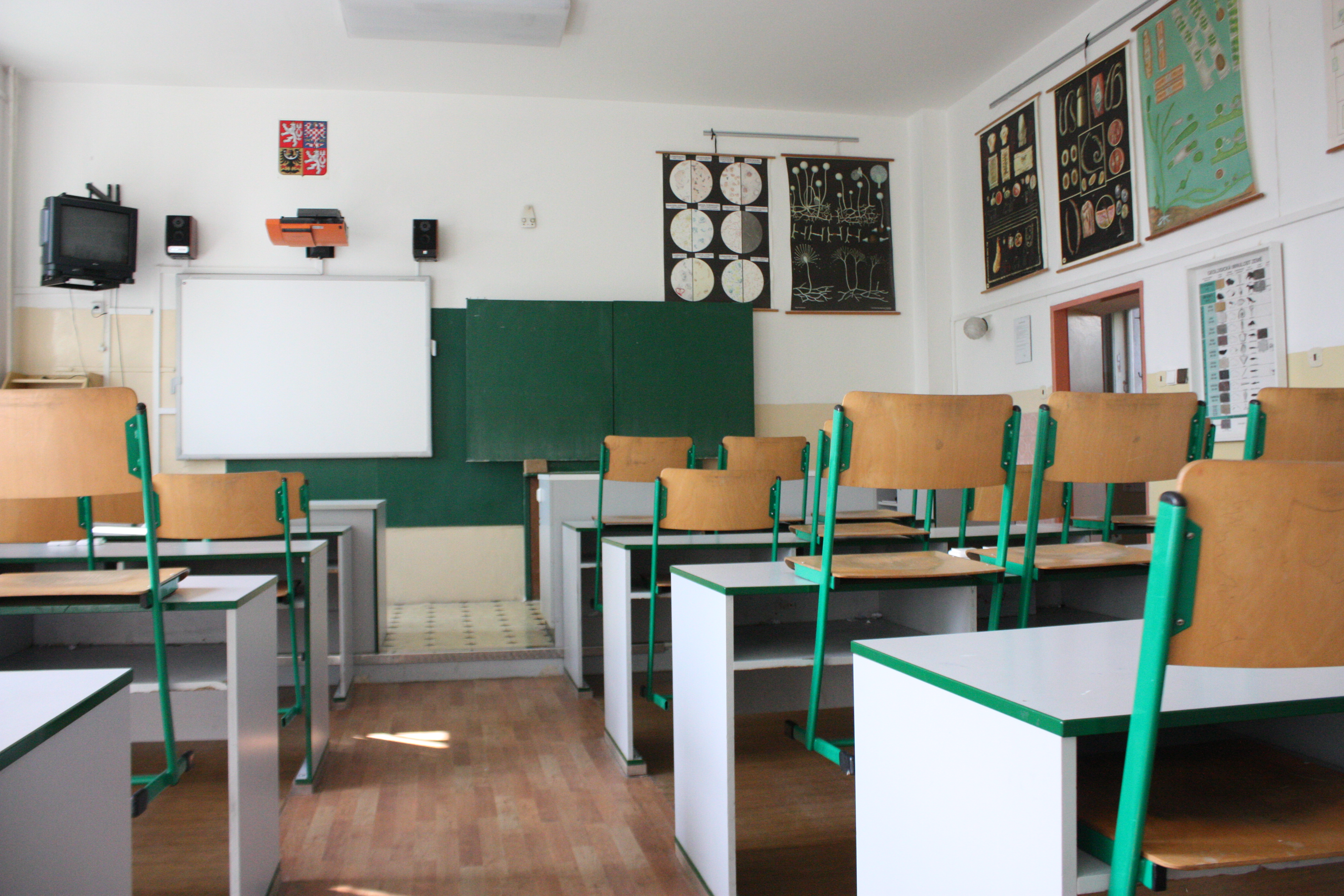 Gymnázium Brno-Řečkovice, biology lesson class